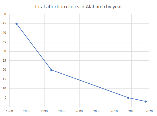 Using data from references on , the total number of abortion clinics in Alabama by year.